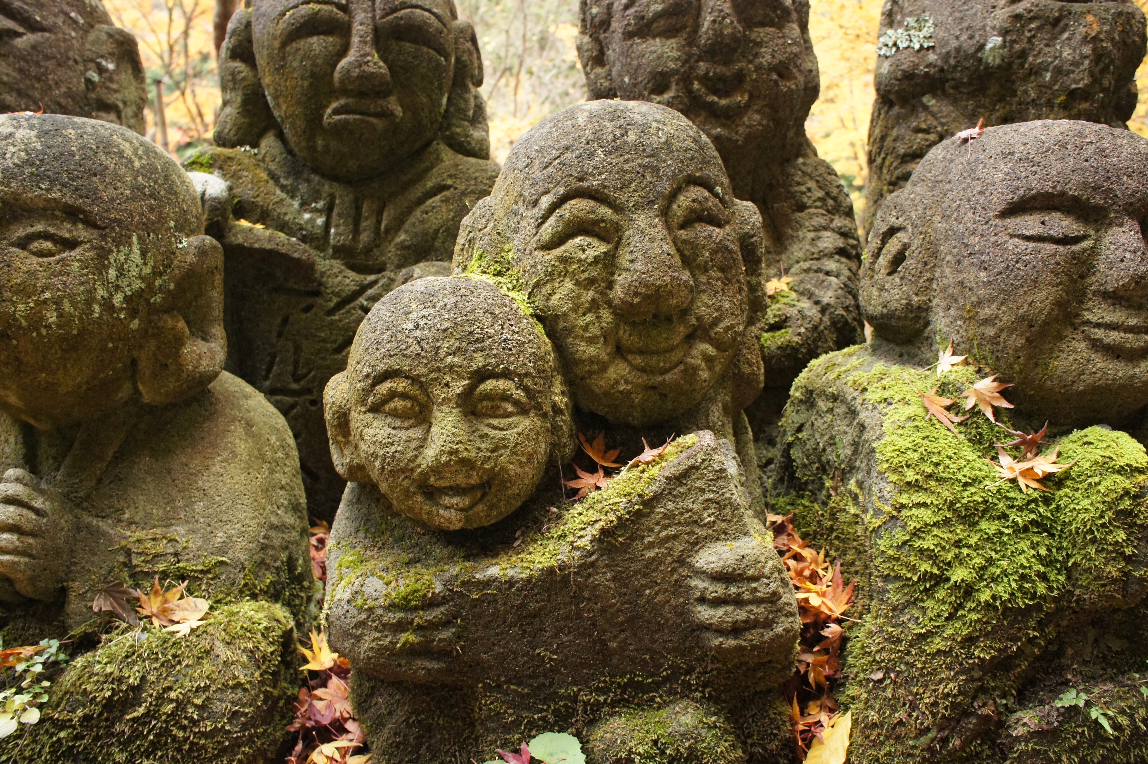 Otagi Nenbutsu-ji in Sagano, Kyoto, Kyoto prefecture, Japan